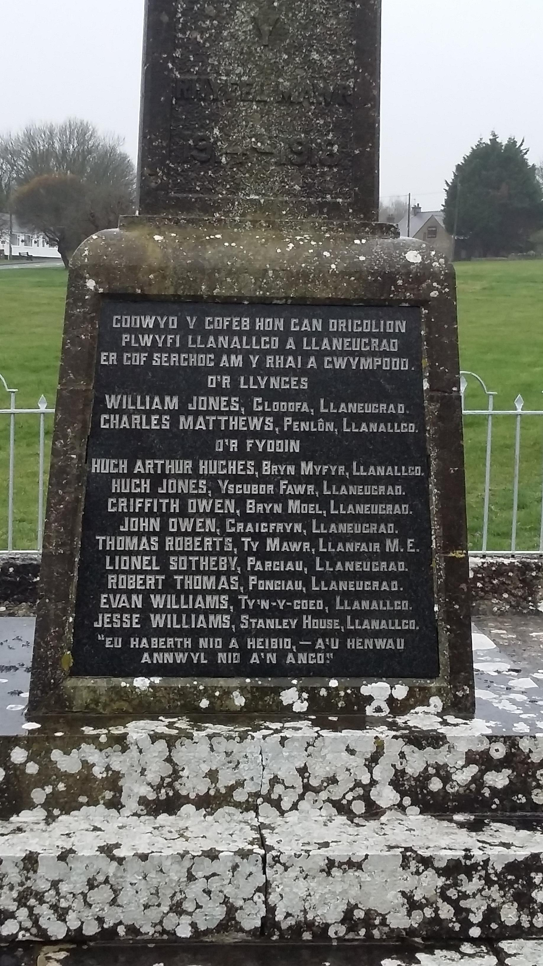 Marianglas war memorial